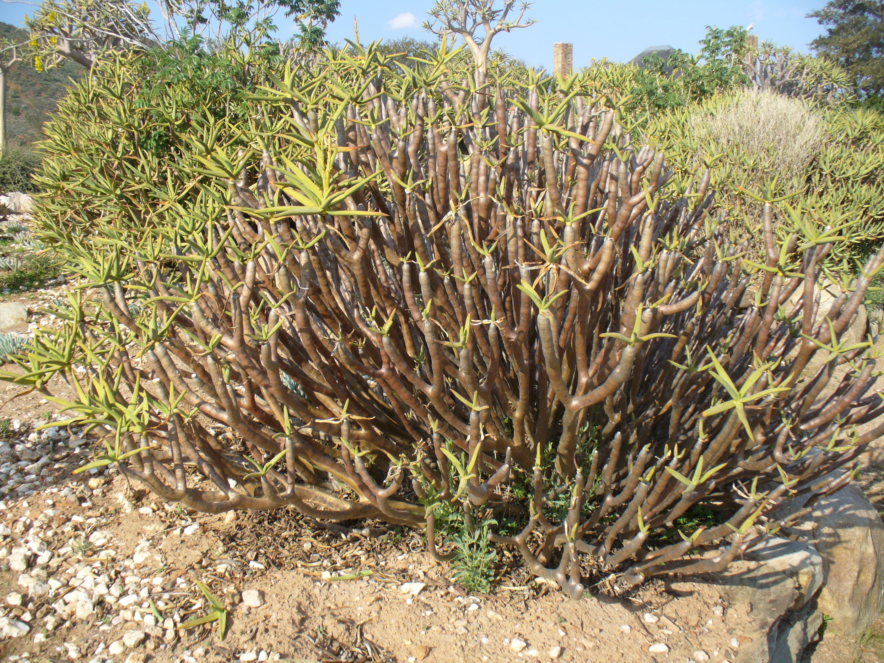 Worcester Botanical Gardens, Cape